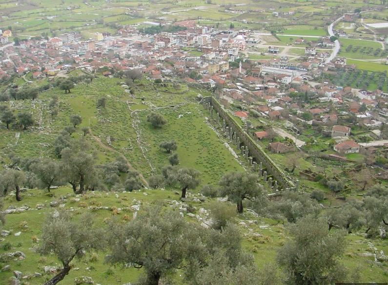 Ruins of the ancient :en:Carian city of :Alinda and the modern town of :en:Karpuzlu, :en:Aydın Province, Turkey